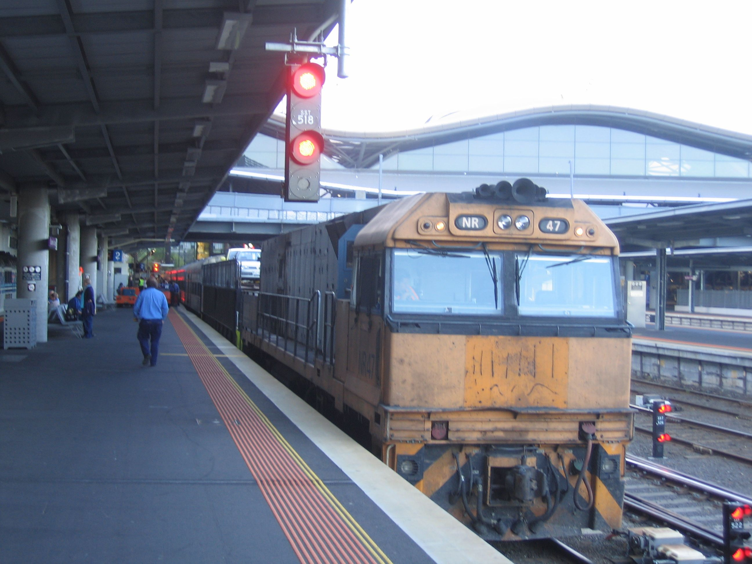 The Overland